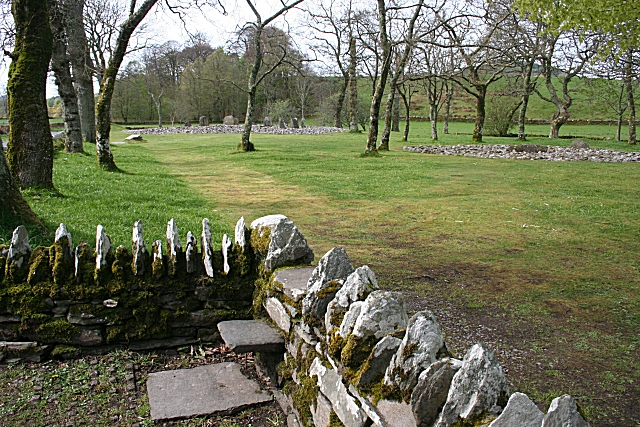 Temple Wood This wood contains two adjacent stone circles, one of which has 13 of the original 20 stones still standing. It was also know for its carpet of wild hyacinths, but the flowers were not much in evidence today, though there are plenty of leaves.